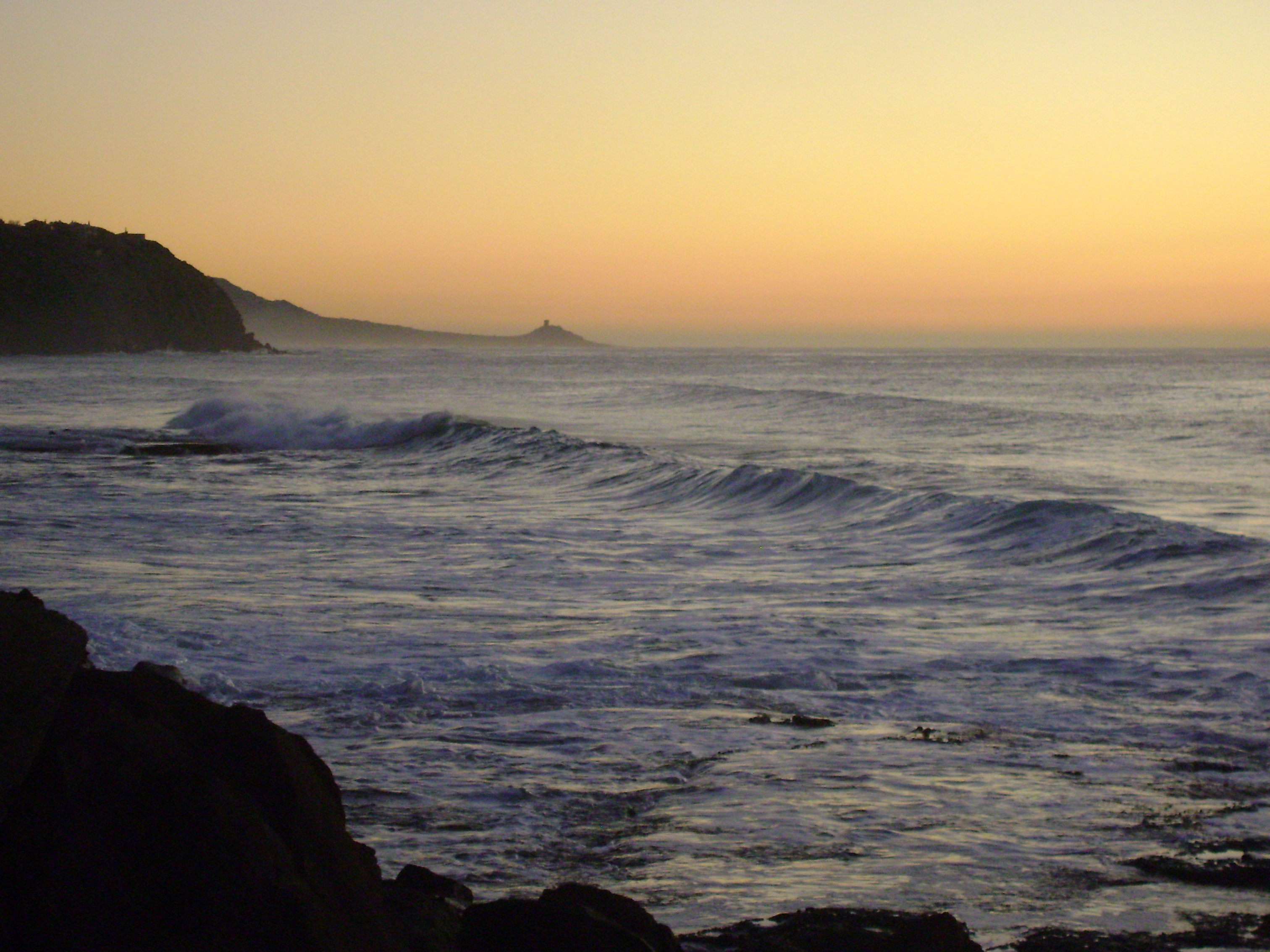 Torre Columbargia from Turas beach at sunset.